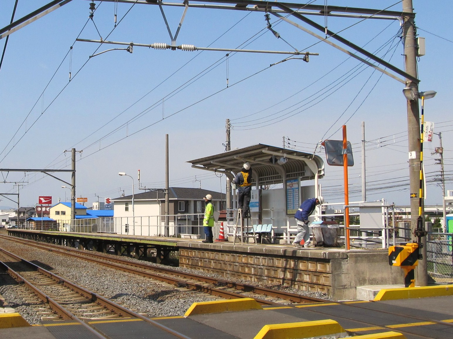 Yasoba Station on the JR Shikoku Yosan Line